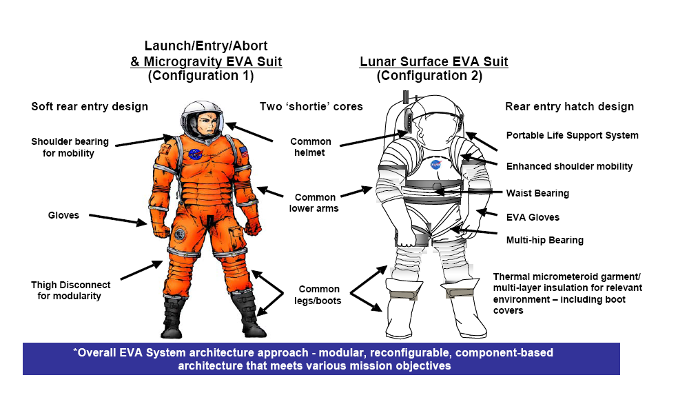 Concept image